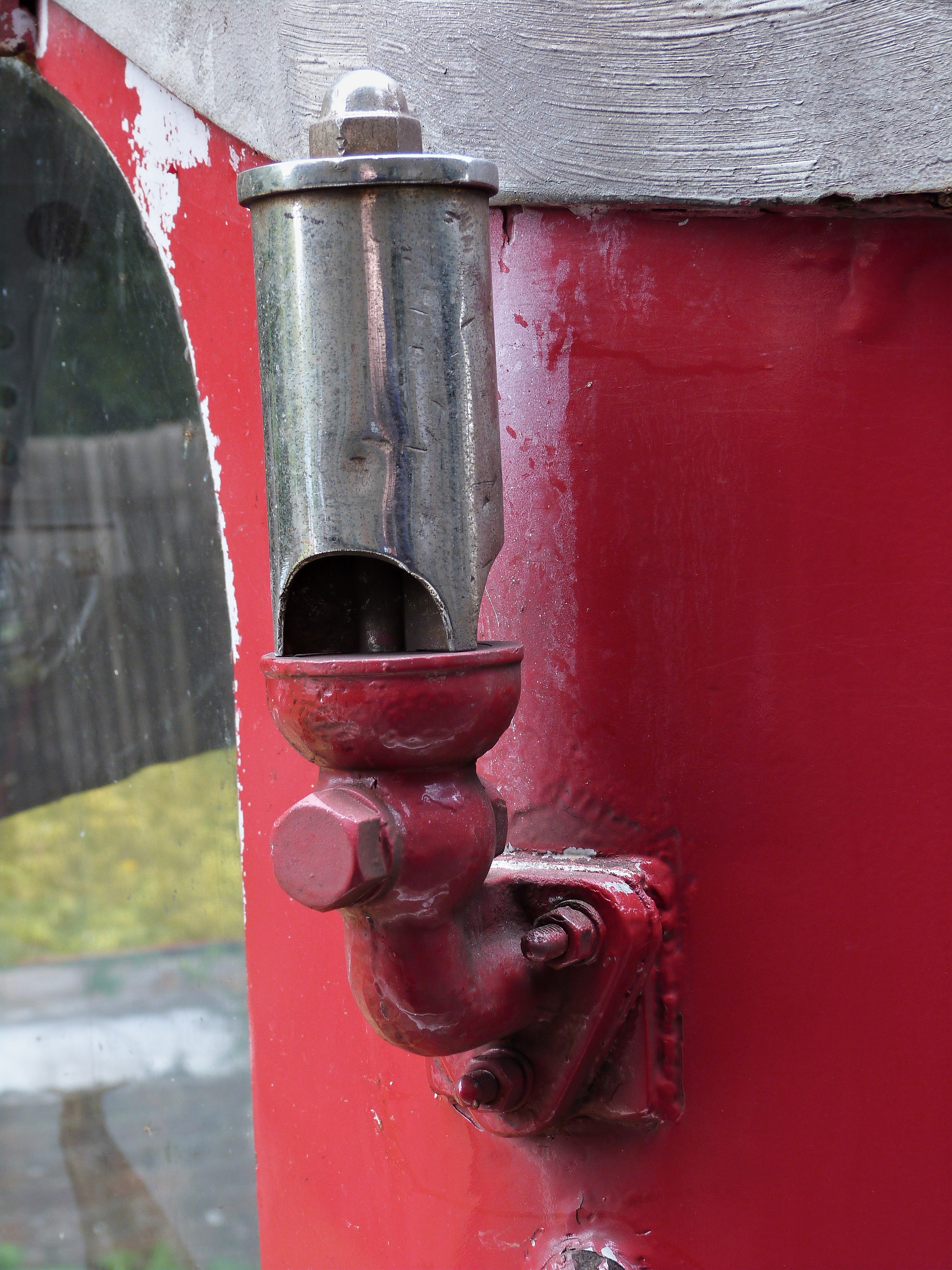 Gotta love the sound these make